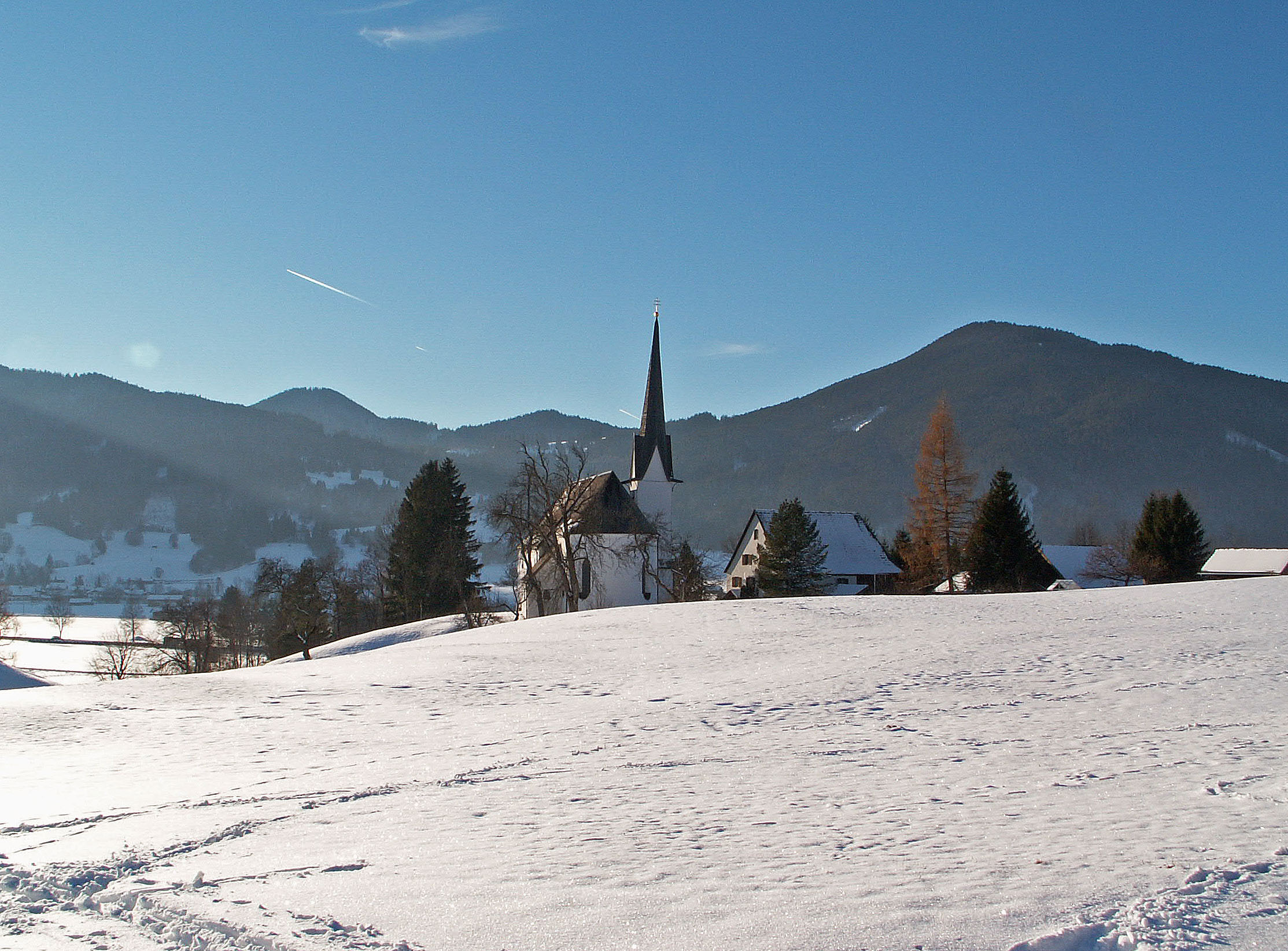 St. Leonhard in Kappel, Unterammergau